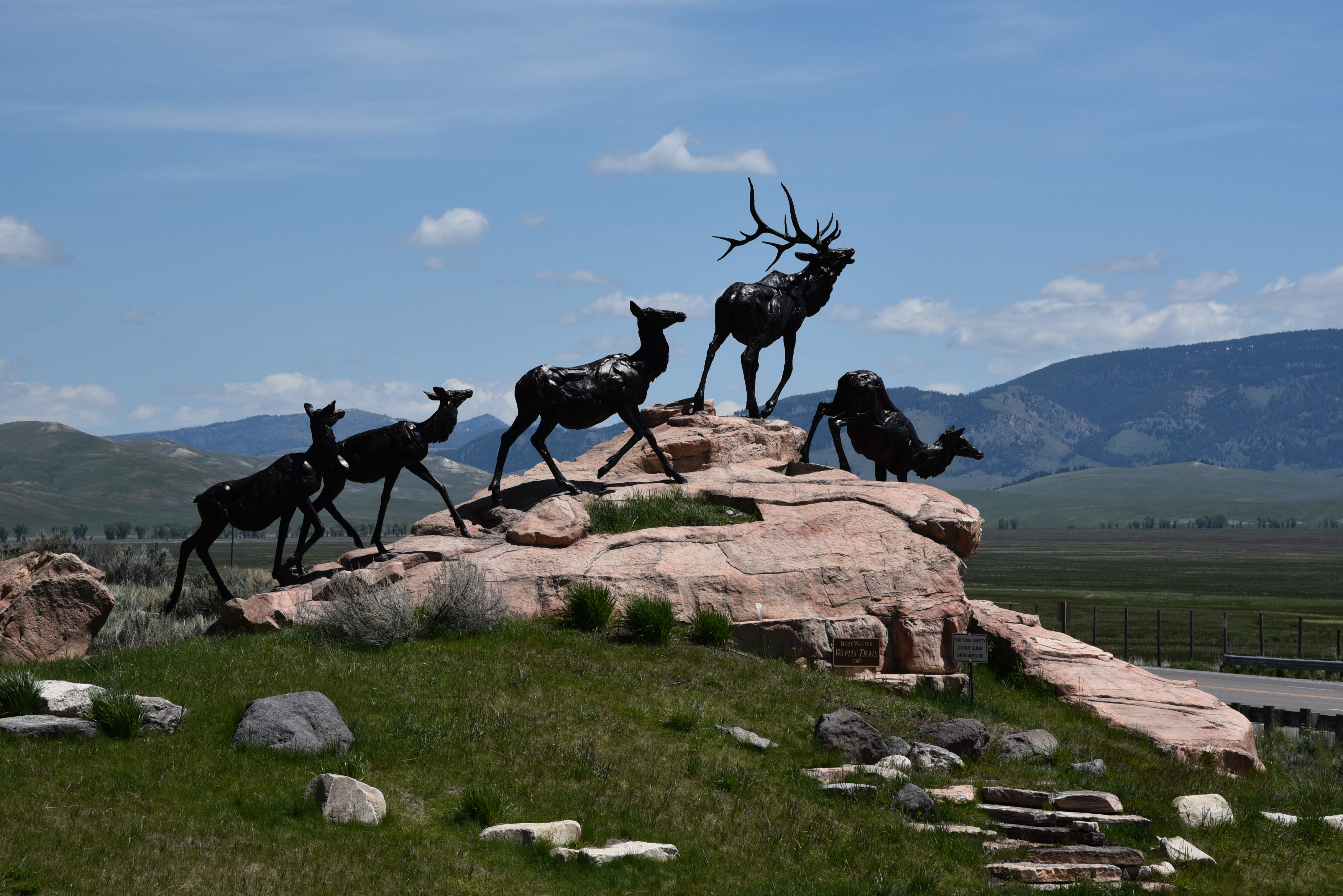 Wapiti Trail, Bart Walter, National Museum of Wildlife Art, Wyoming.